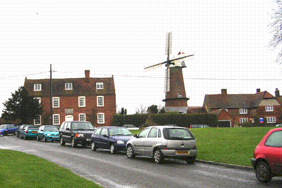 Quainton, Buckinghamshire, UK. Photographed by uploader who releases to public domain